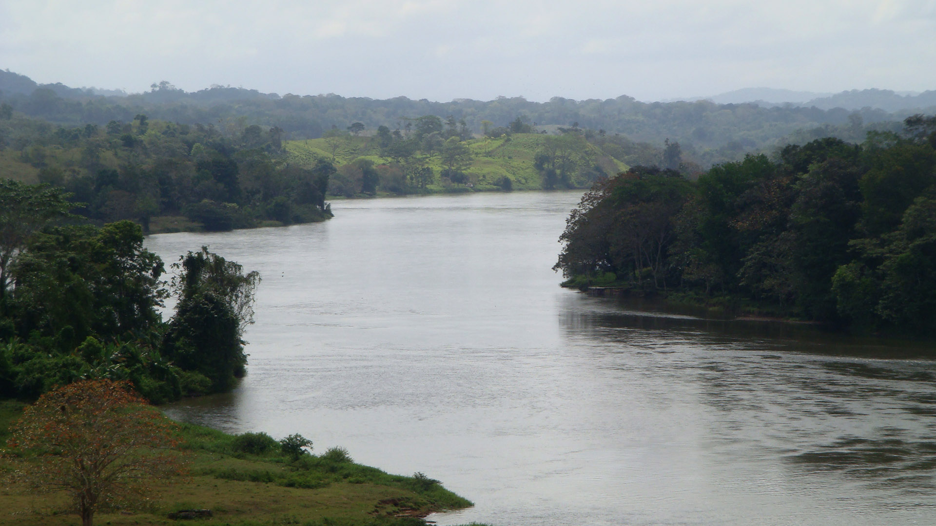 Boca de Sabalos